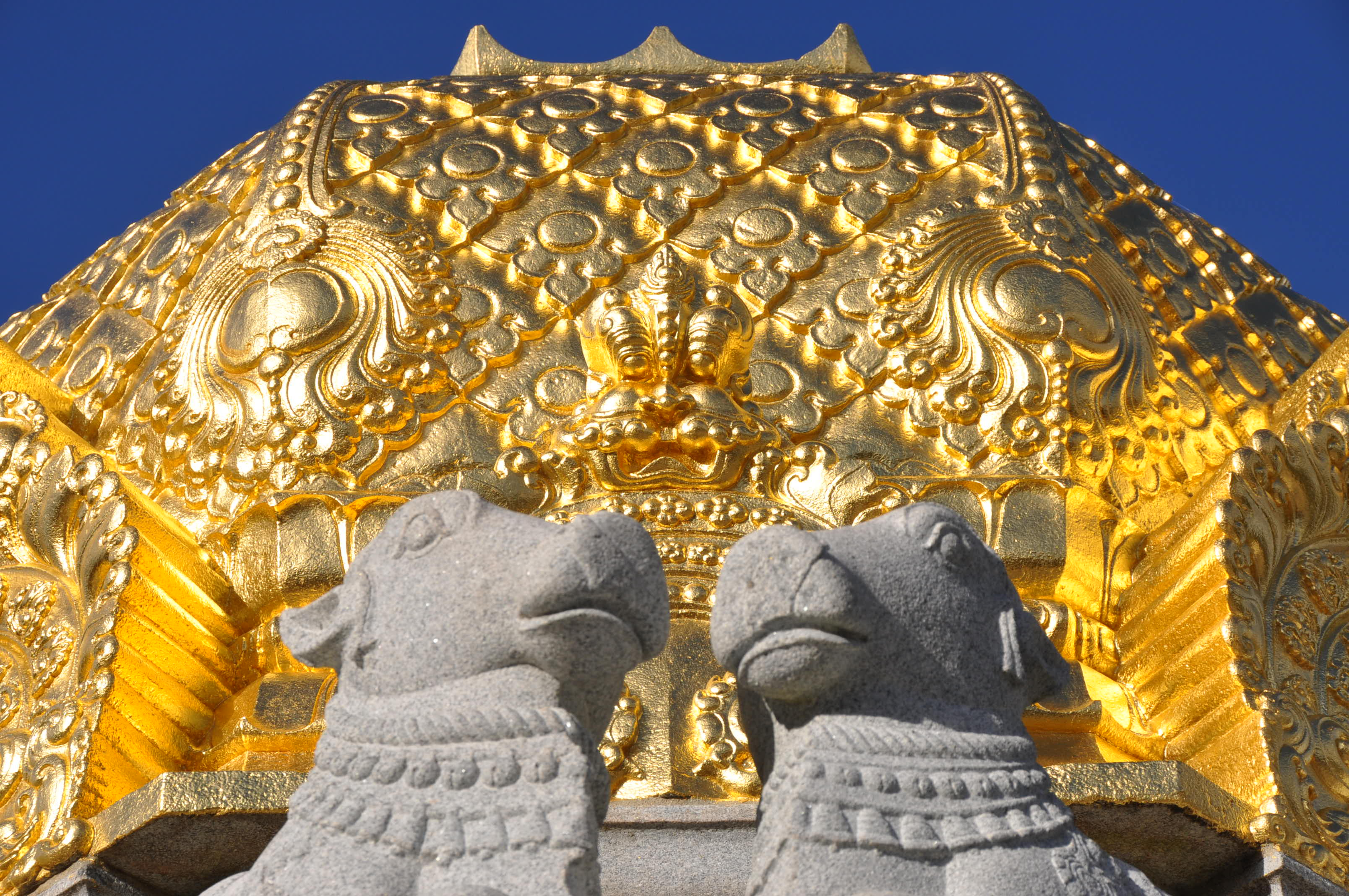 Iraivan Temple's Vimanam (central tower), hand-carved, gold-leafed